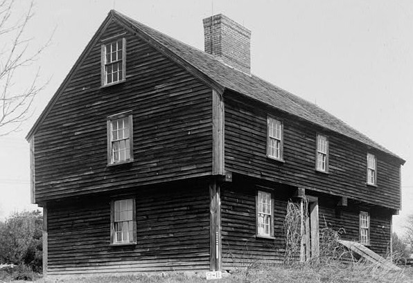 McIntire-Garrison House, South Berwick Road (State Route 91), Scotland (York County, Maine) (cropped)